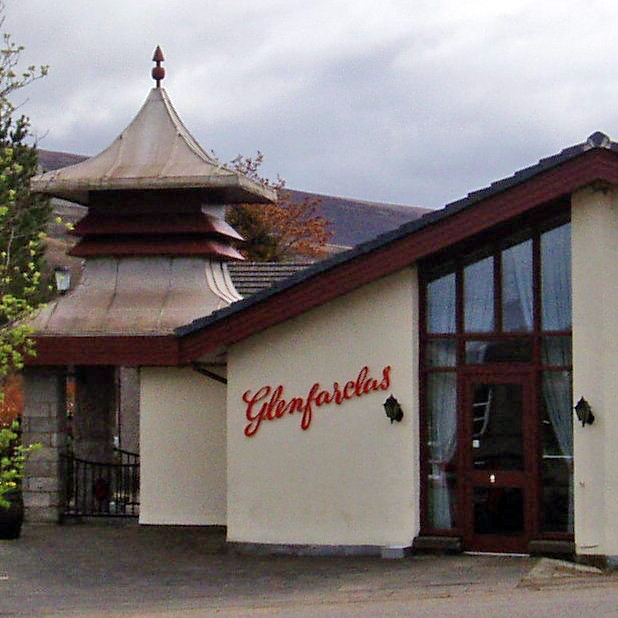 Picture taken April 2005 by myself.